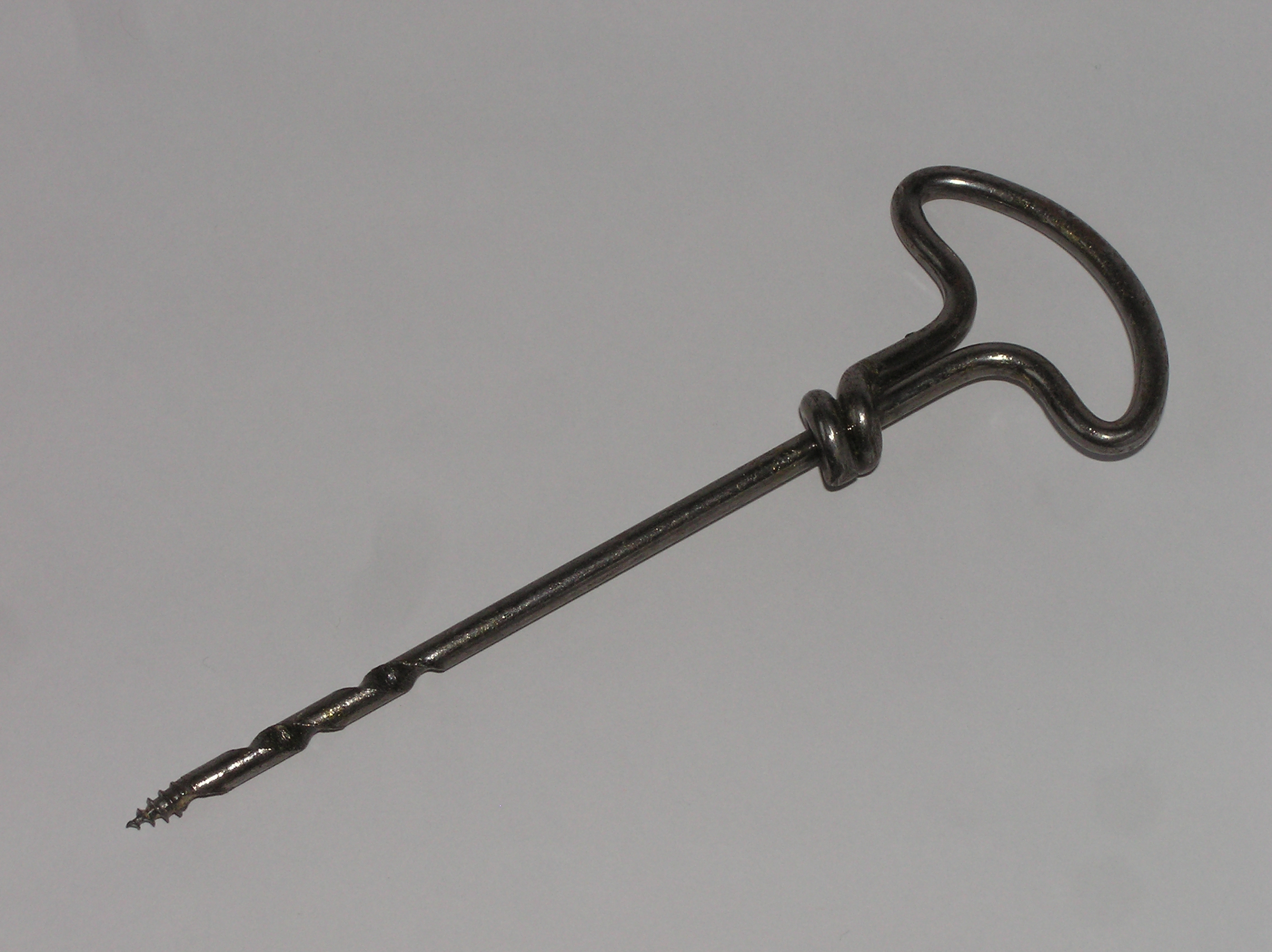 Naildrill